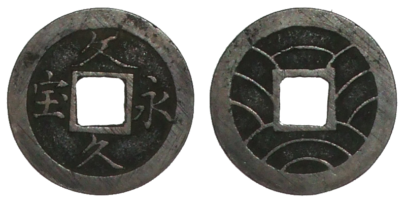 Bunkyu-eiho-ryakuho